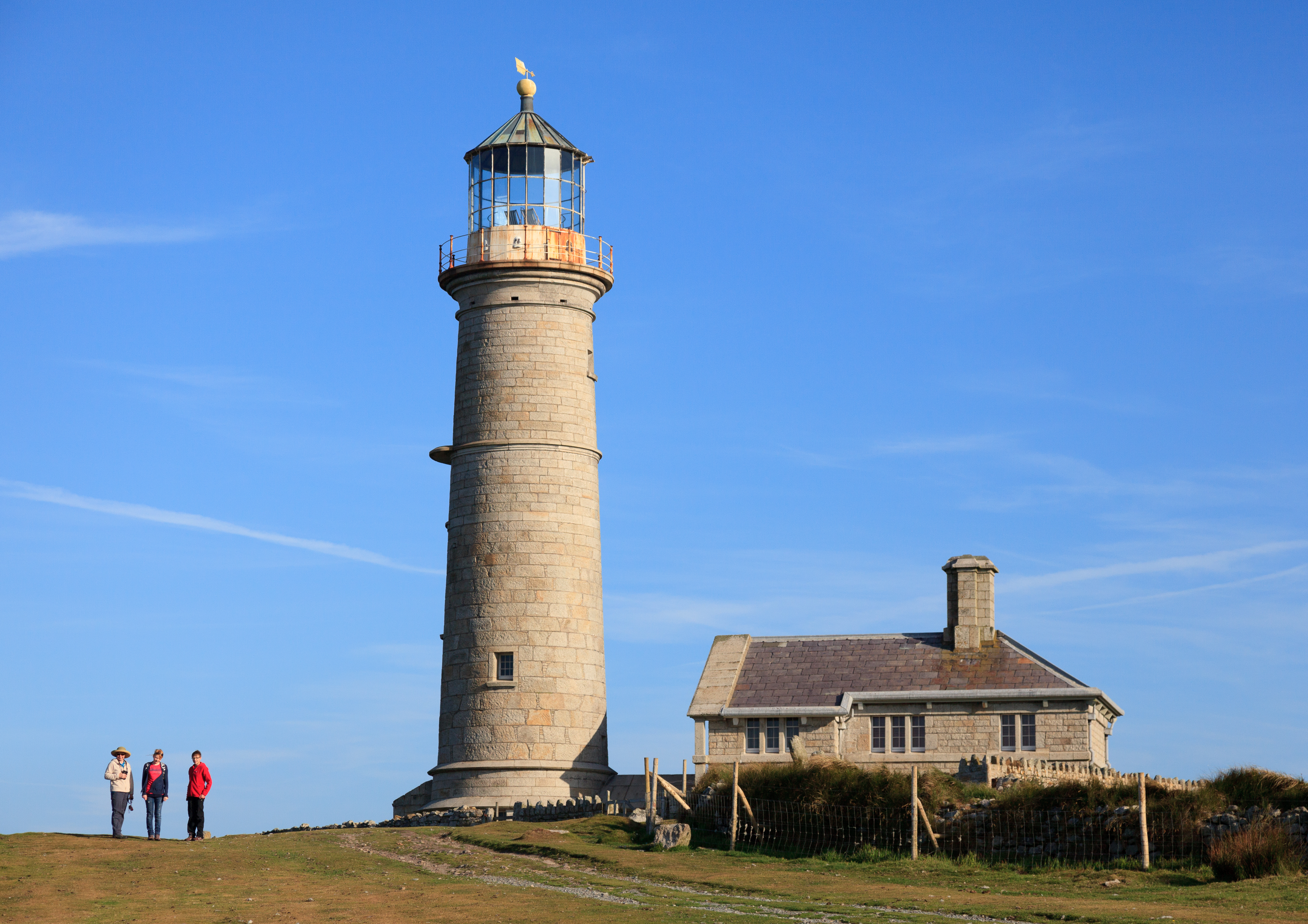 Old Light, Lundy